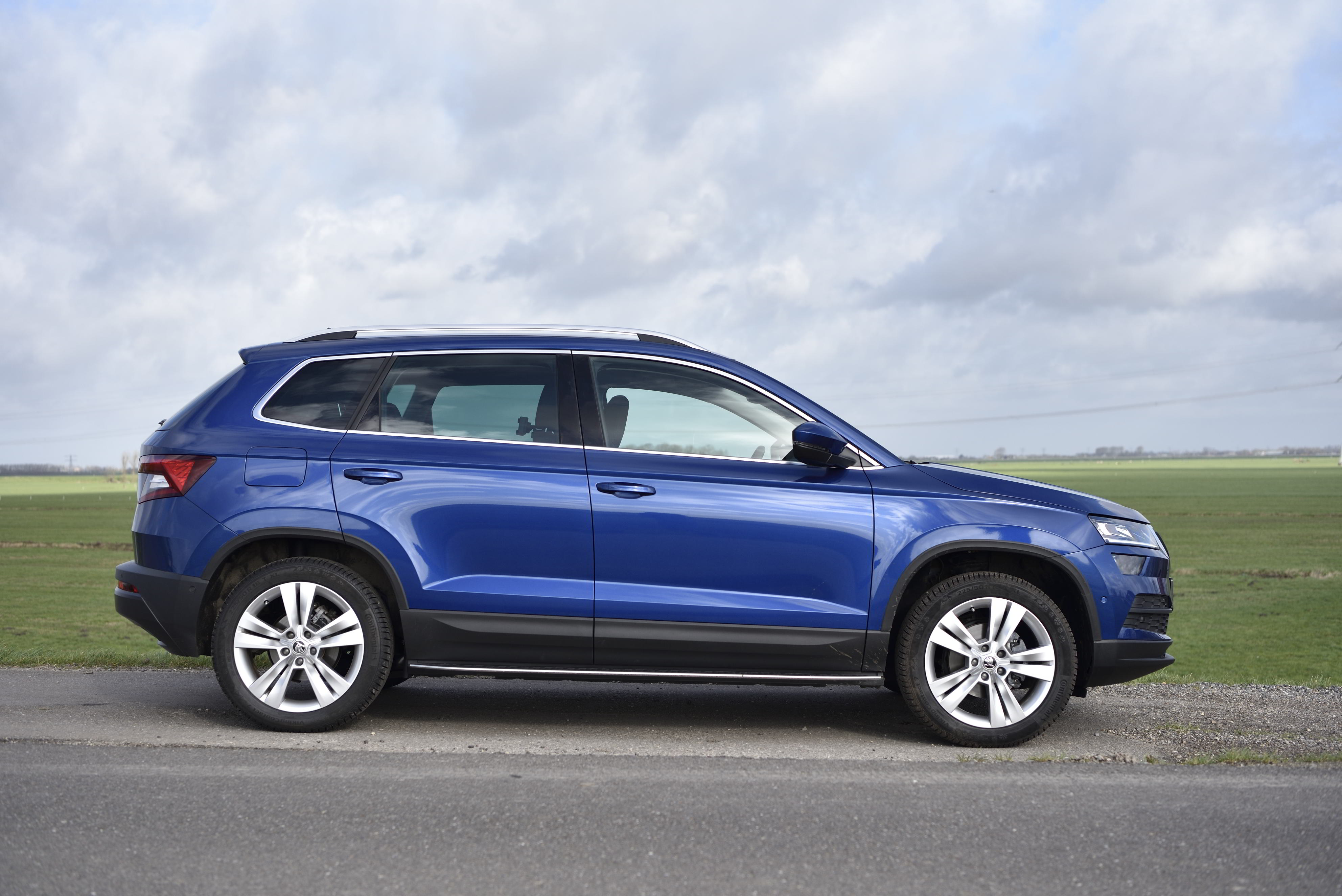 Škoda Karoq 2020 profile